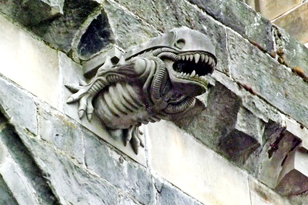 One of the gargoyles replaced a few years ago at Paisley Abbey bears an uncanny resemblance to a Xenomorph from the "Alien" films